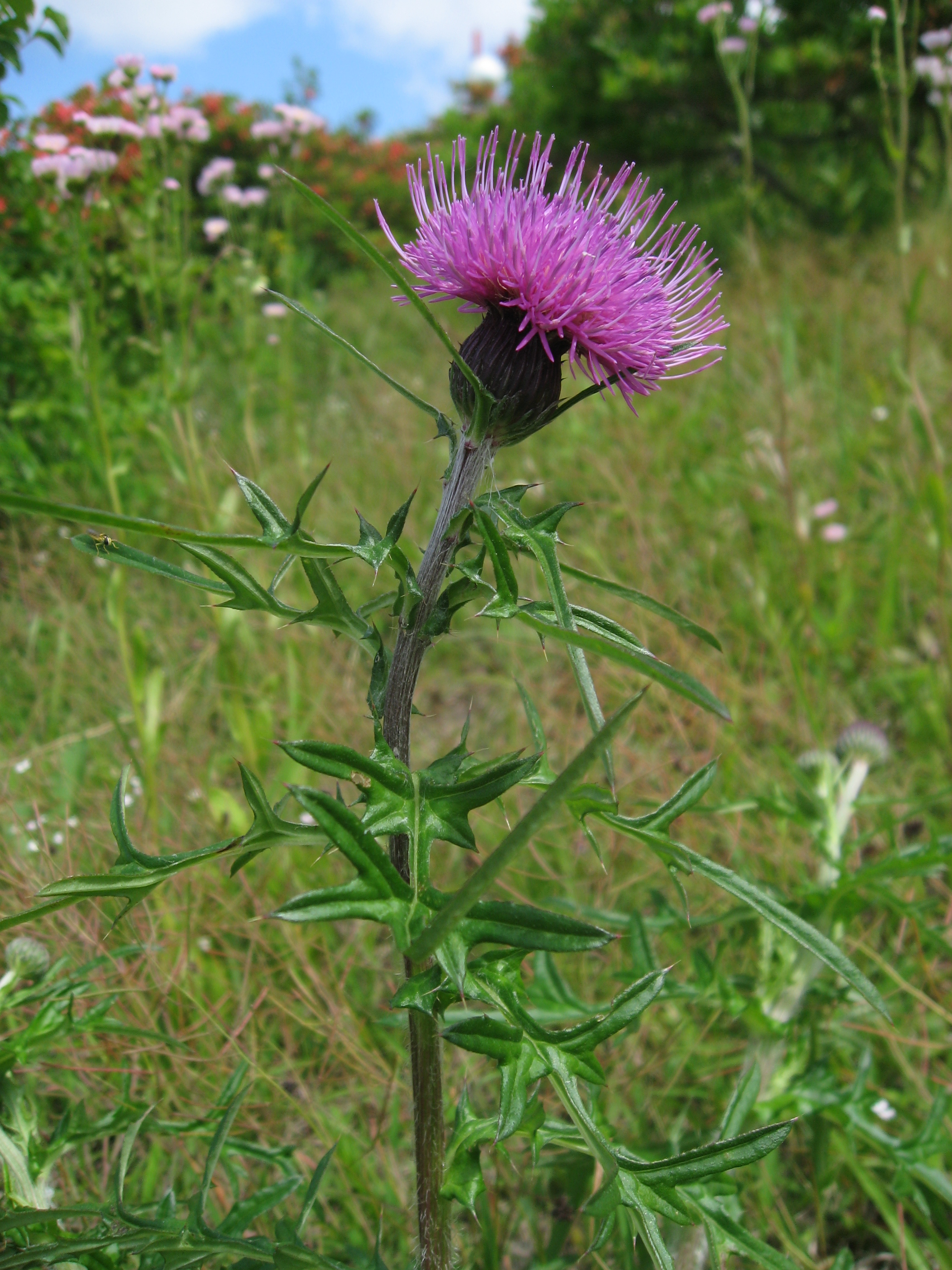 Cirsium japonicum, Aizu area, Fukushima pref., Japan